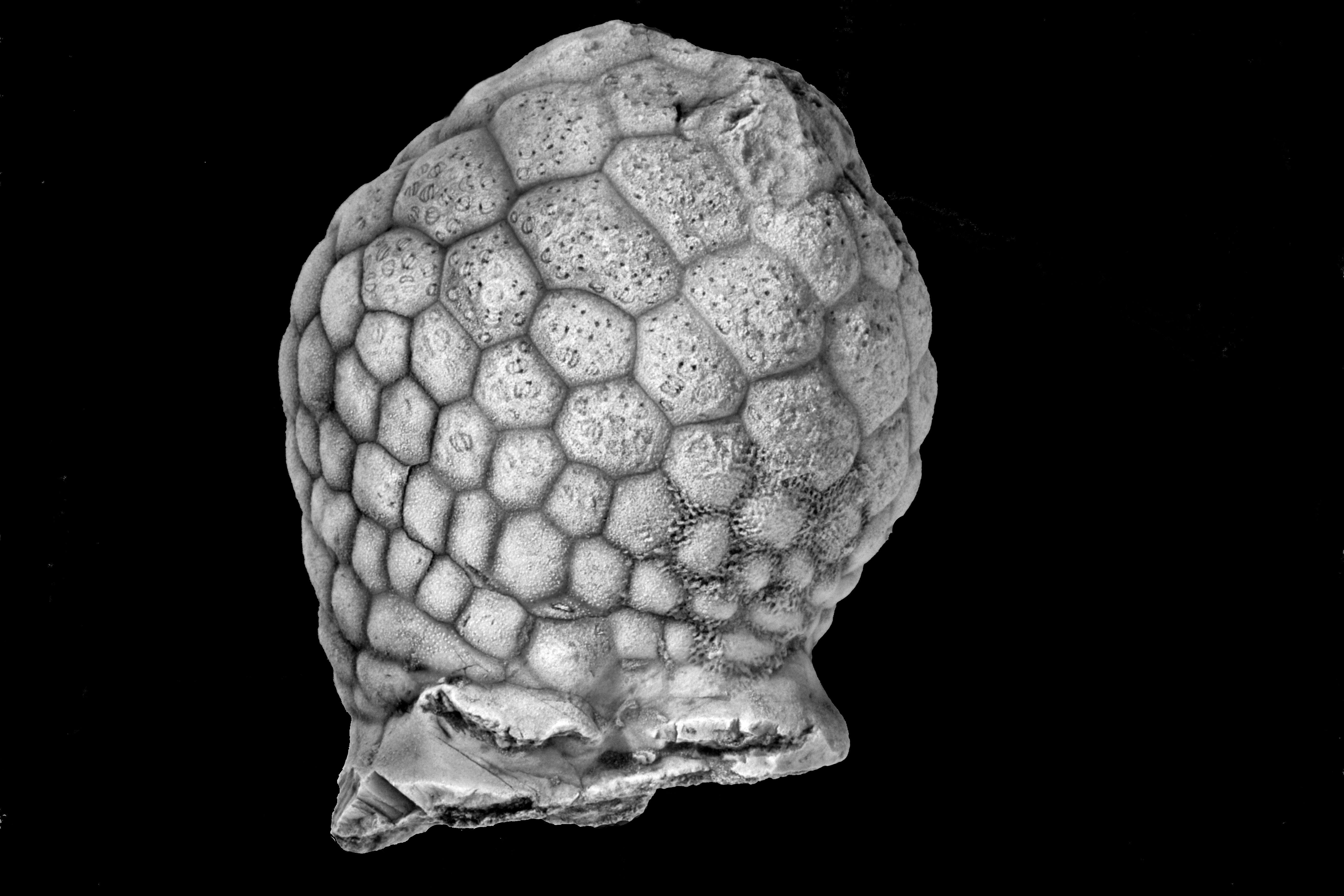 Paulicystis sparsus, a diploporitan from middle Silurian deposits of Indiana. This taxon belongs to the holocystitid group, meaning that it has humatipores, instead of diplopores. Note the humatipores that are pores connected by multiple canals are located on all of the plates of the body wall. Specimen from The University of Iowa Paleontology Repository (SUI 48164)